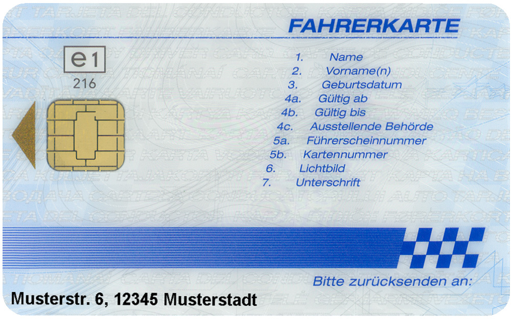 The reverse side of a German motor vehicle license sample